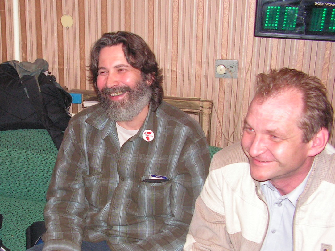 Organizer of international theatre projects Ingrida Daunoraviciute (Lithuania), playwright Vadim Levanov and President of the festival "May readings" Vladimir Doroganov after the main program of the festival. Utility room theatrical centre "Golosova 20", Tsentralny district, Togliatti, Russia. 28 may 2006.